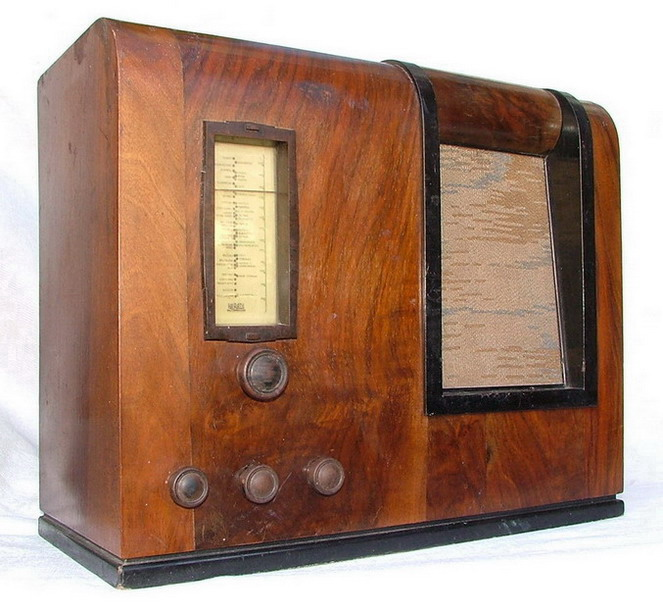 Radio receiver made in 1937 by Karadi, Kaunas, Lithuania.